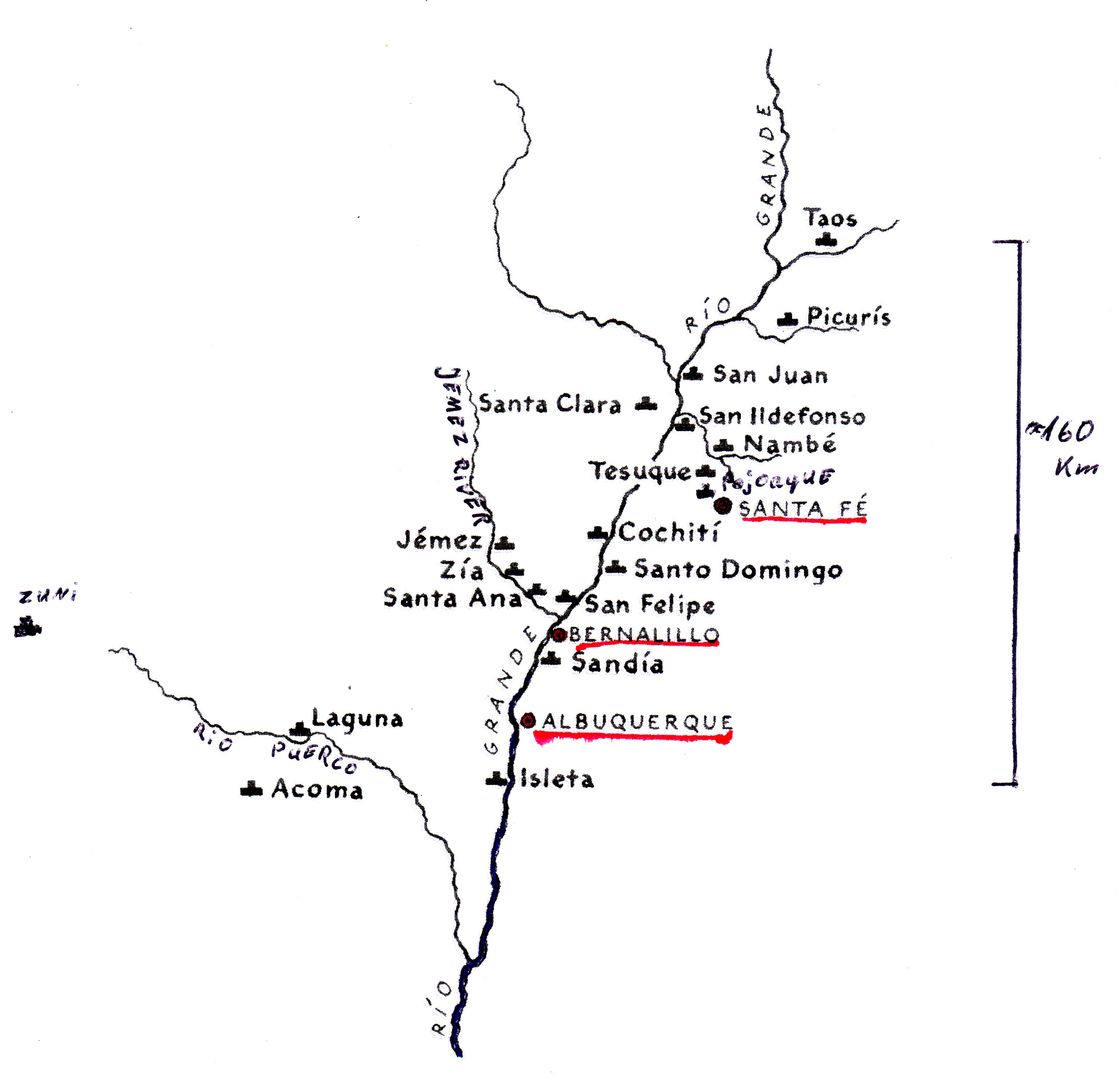 Inhabited pueblos in New Mexico.